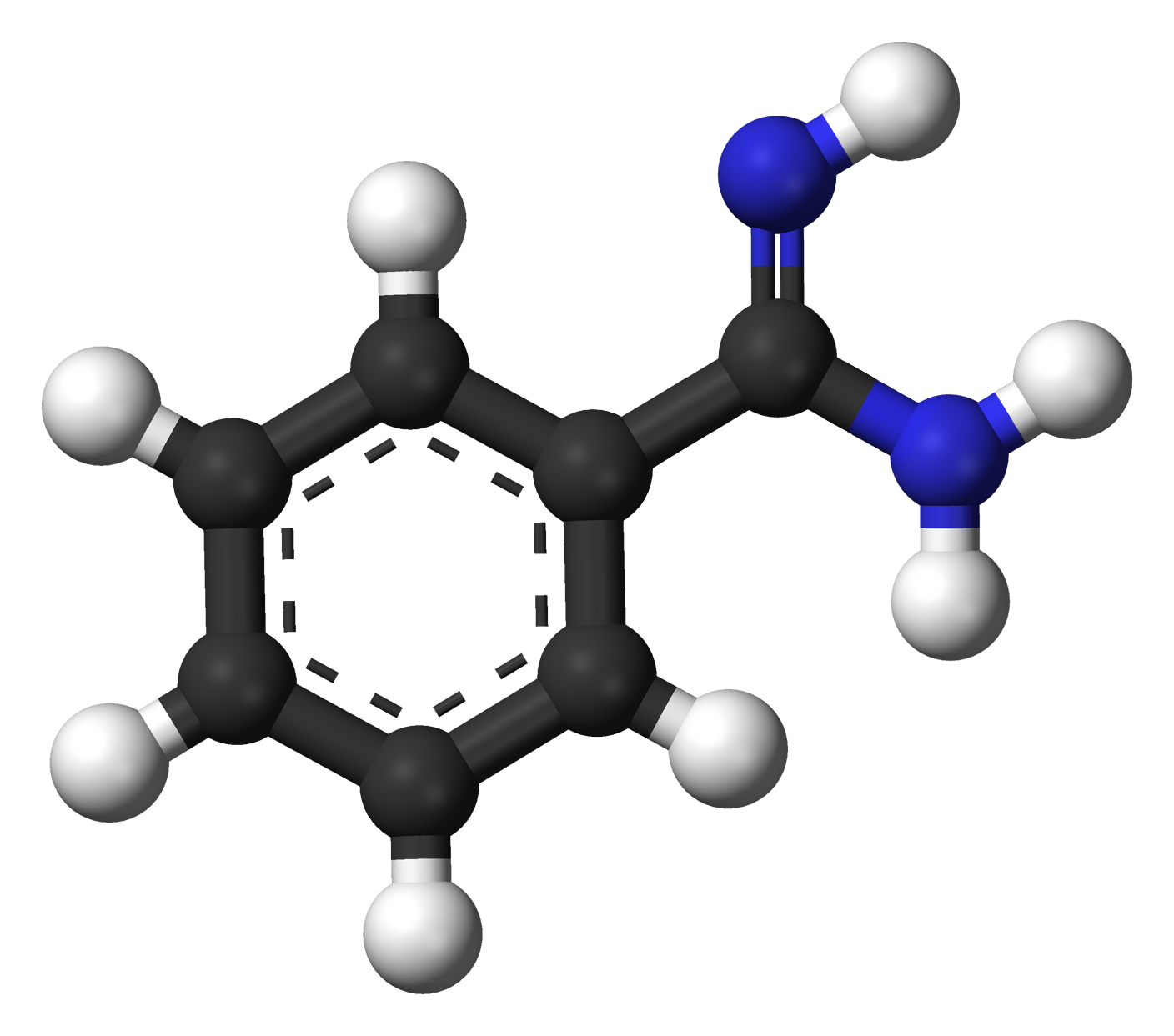 Ball-and-stick model of the benzamidine molecule, an amidine used as a ligand in protein crystallography.